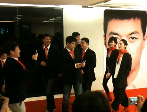 Faye Wong attending the Eternal Moment premiere. Other information This file is a screenshot from a video which has been licensed under Creative Commons Attribution License.